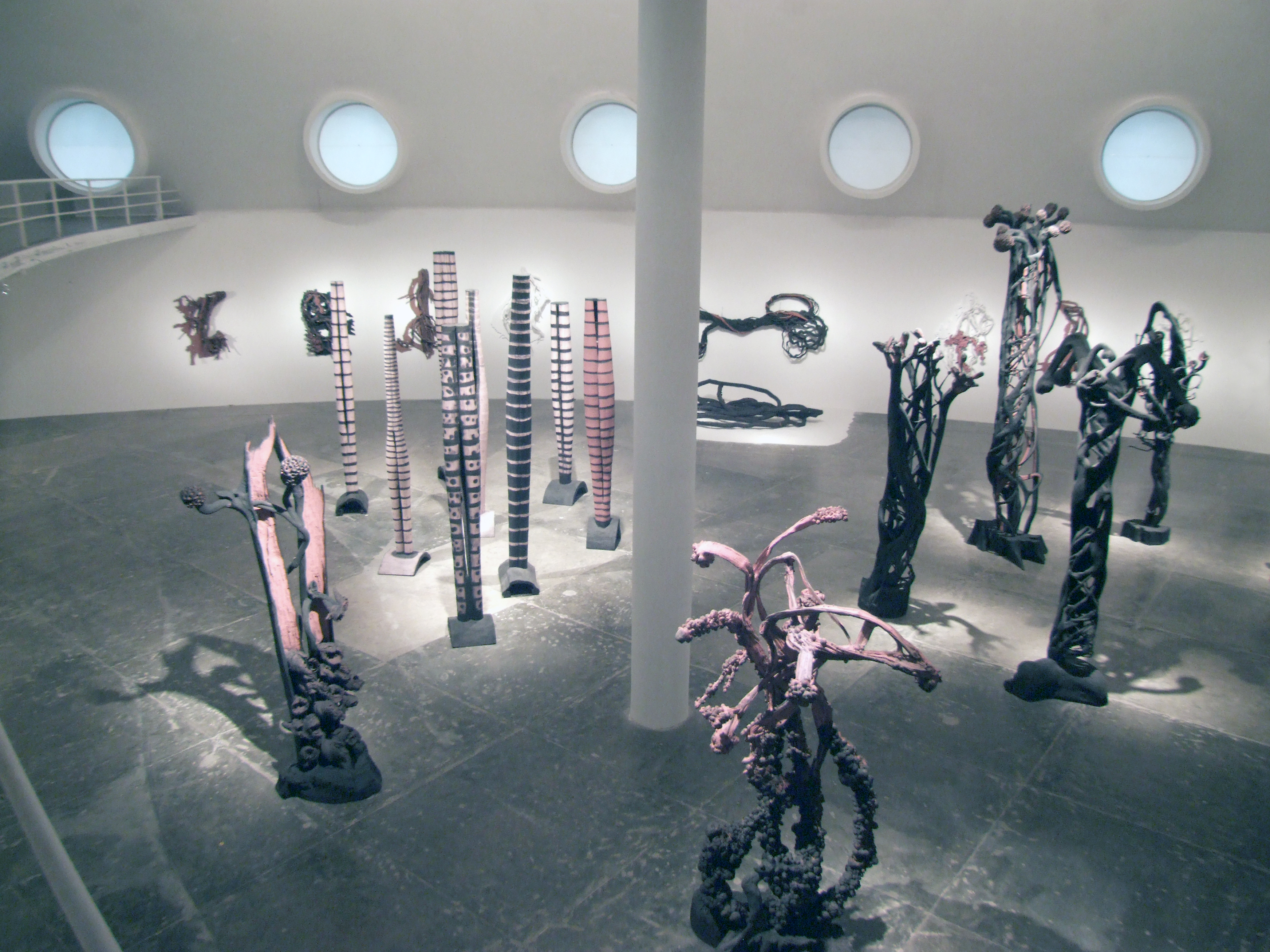 Natura Exhibition, Frans Krajcberg, Oca - Parque do Ibirapuera, São Paulo, 2008.